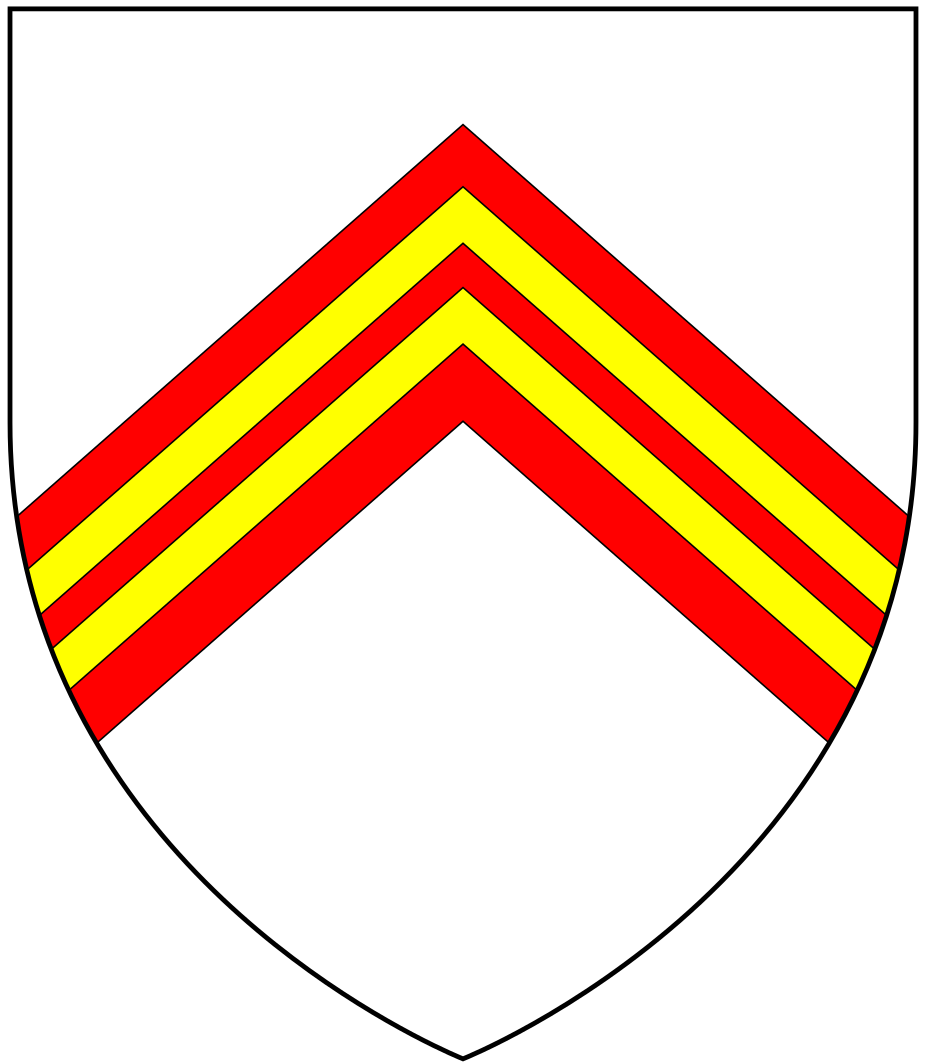 Arms of Chanon of Talaton, Devon: Argent, on a chevron gules two couple closes or (Vivian, Lt.Col. J.L., (Ed.) The Visitations of the County of Devon: Comprising the Heralds' Visitations of 1531, 1564 & 1620, Exeter, 1895, p.167)